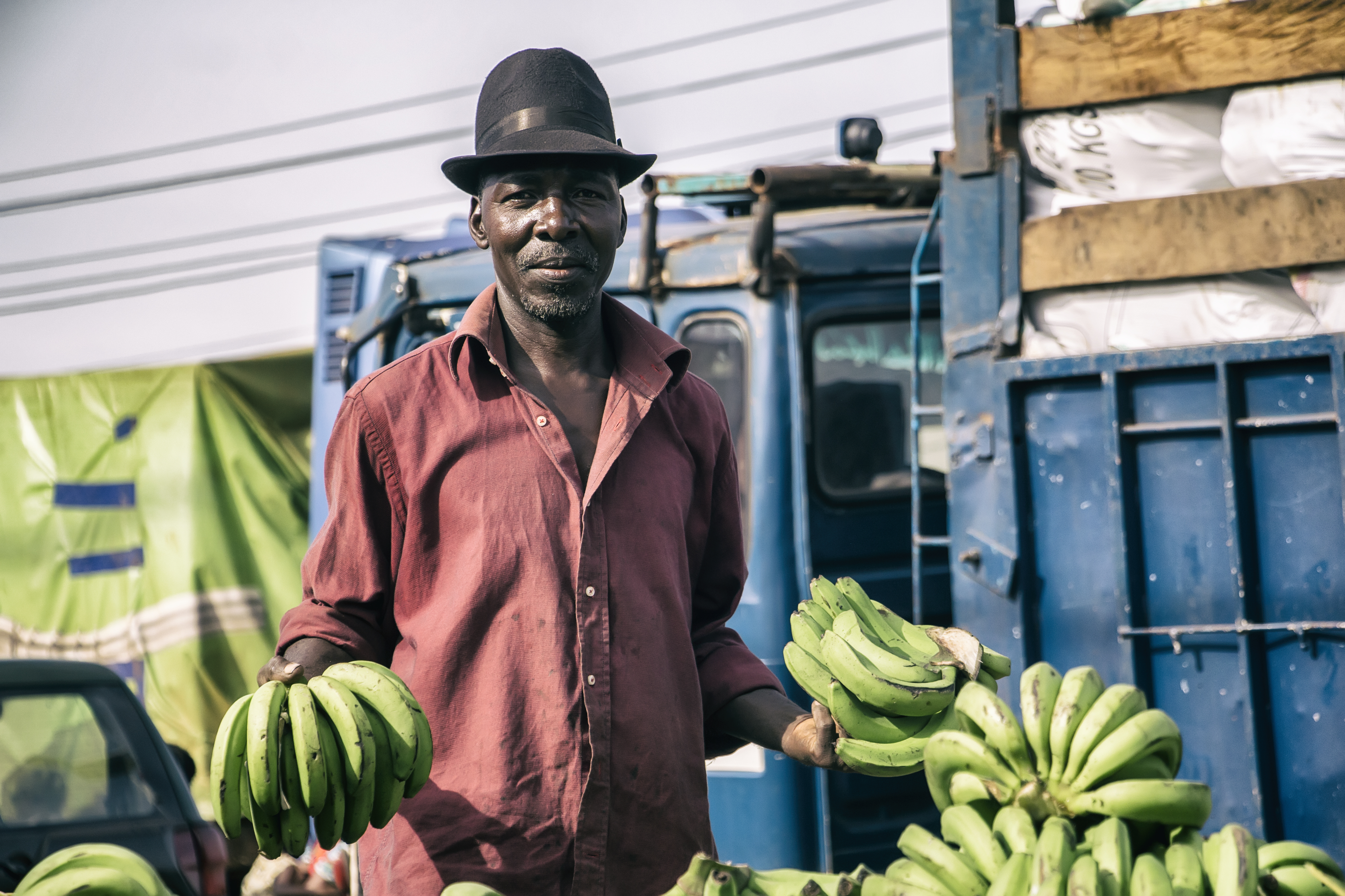 This is an image of "African people at work" from Guinea